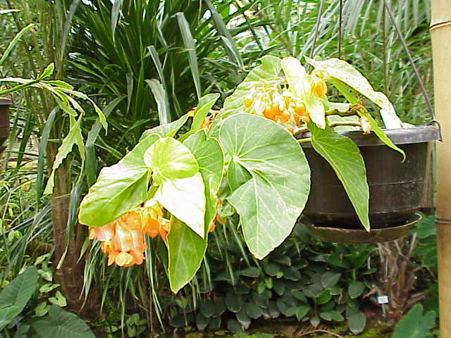 Species: Begonia dichroa Family: Begoniaceae Image No. 2